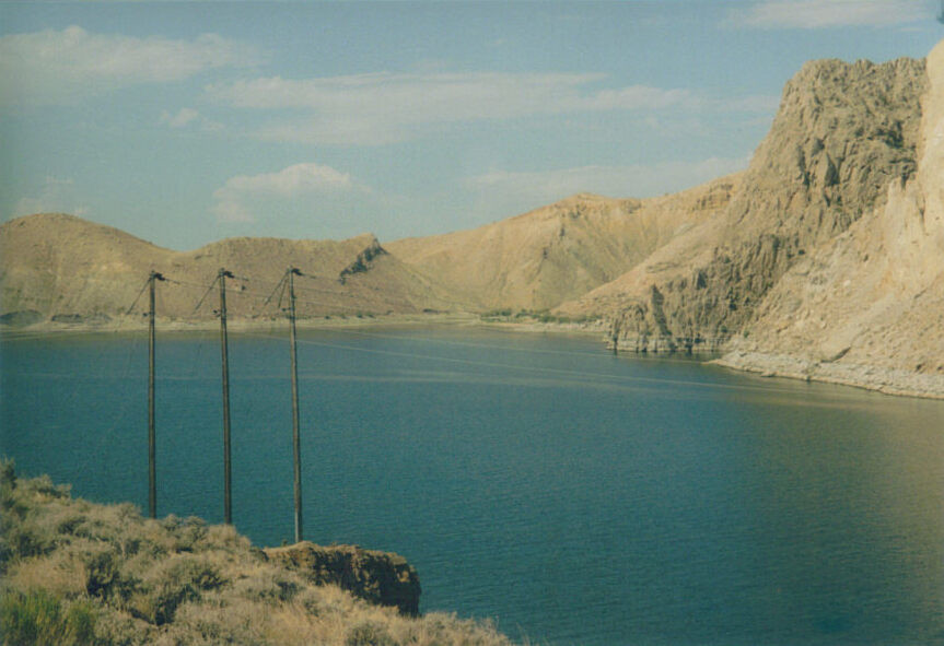 The Wind River contained in the Boysen Reservoir. Located near Thermopolis in Hot Springs County, and Shoshoni in Fremont County, in the central part of Wyoming. I took photo in Aug. 2006.Billy Hathorn (talk) 17:01, 5 July 2008 (UTC)